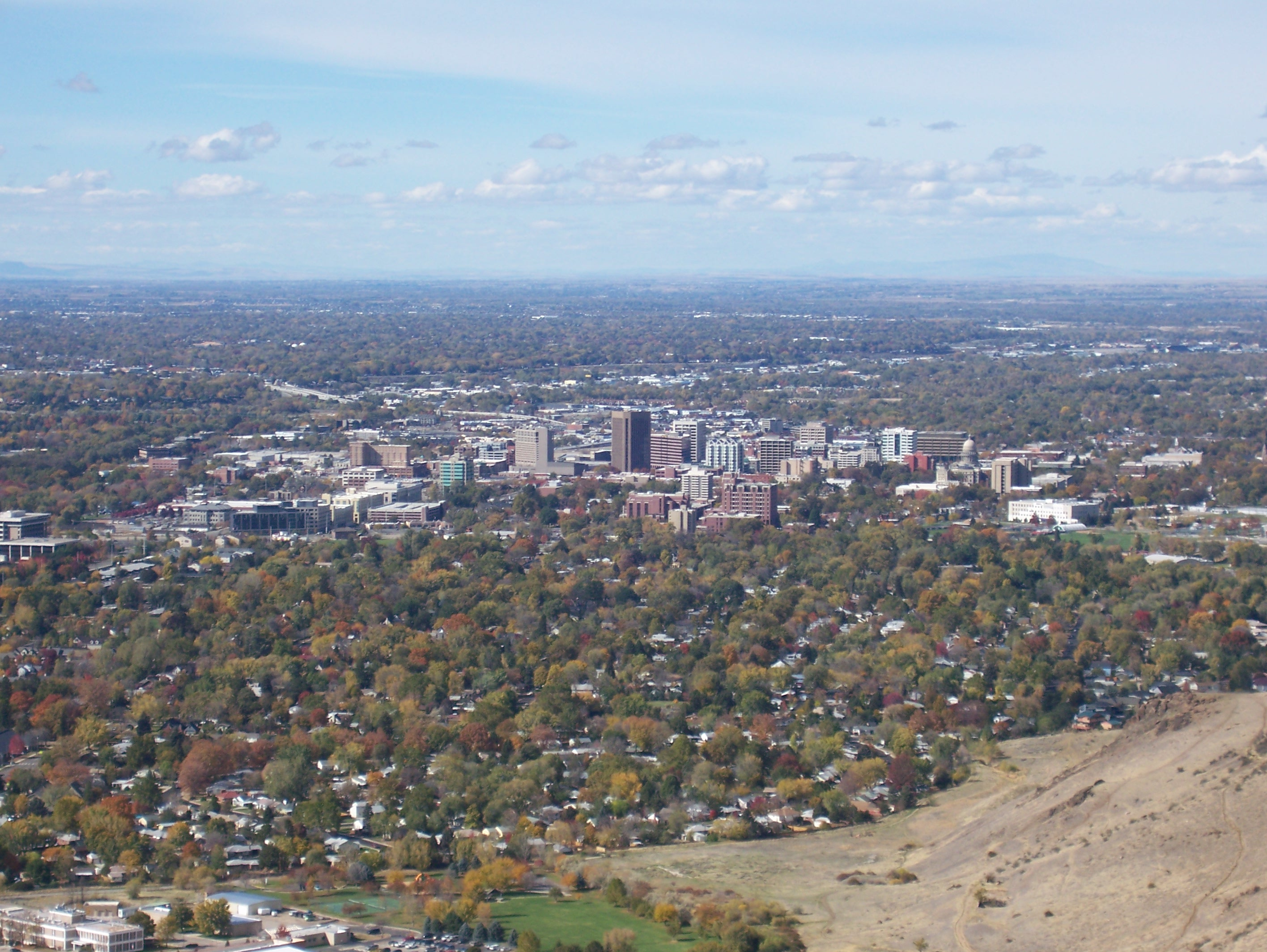 Bird's-eye view of Boise, Idaho in 2007.